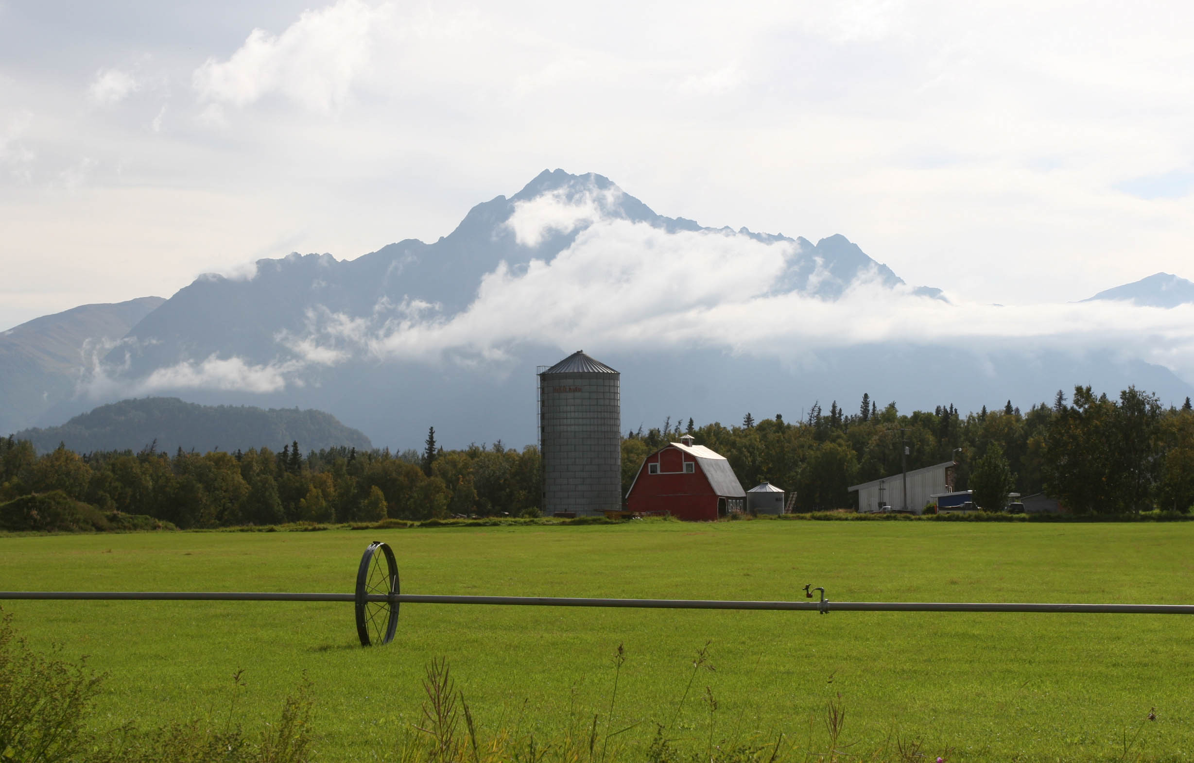 Agricultural farm in Alaska in the Matanuska Valley near the town of Palmer. The prominent mountain in the background is Pioneer Peak.